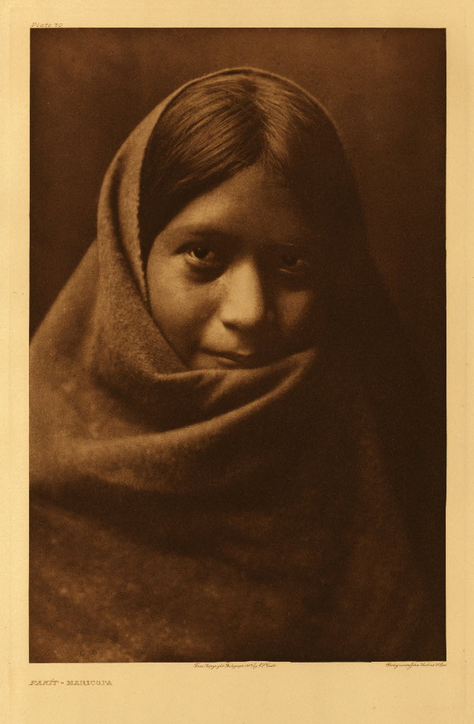 "Pakit, Maricopa" (1907). Photograph of Pakit, a young Maricopa woman, in Arizona. From The North American Indian, by Edward S. Curtis.